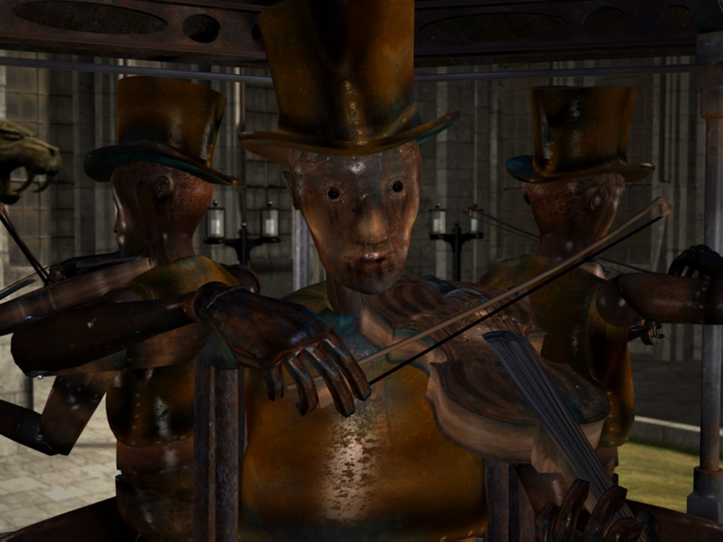 Screenshot from the video game Syberia (2002), developed and edited by Microïds. The musician automata at the university of Barrockstadt, the second town explored by the heroin Kate Walker in the game.